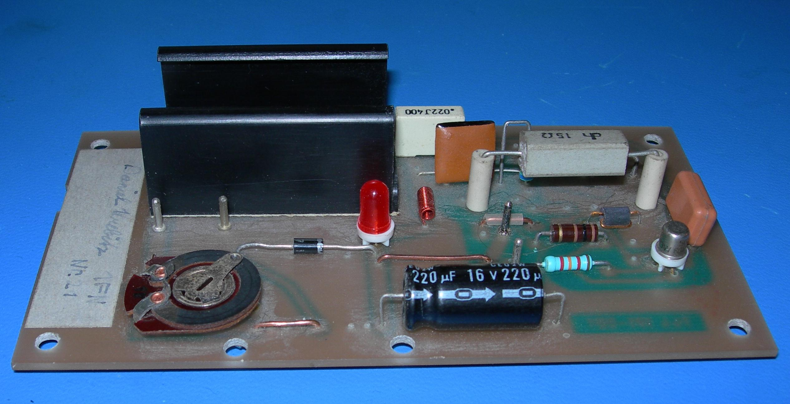 Author: DLKS, own work THT-board Top-side